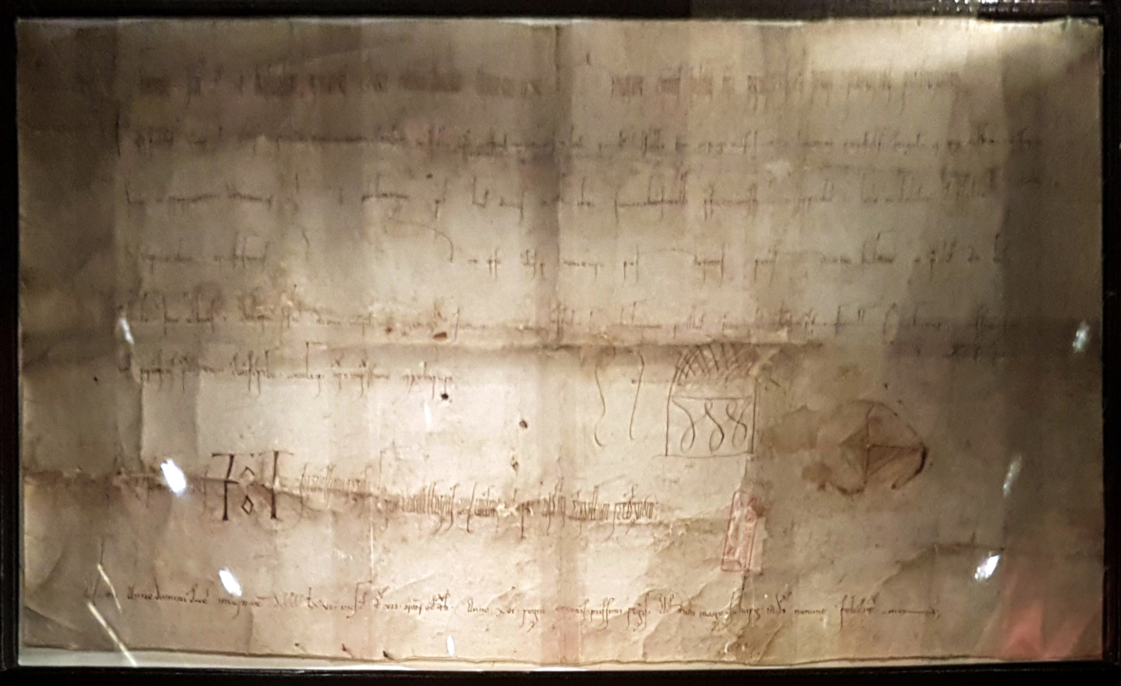 Three precious objects in the so-called 'treasury' of the National Archives in Limburg (Regionaal Historisch Centrum Limburg, RHCL), Maastricht, Netherlands. Top: the deed of October 7, 950, whereby German King Otto I granted the feudal rights of the villages Kessenich and Echt to count Ansfried. This is the oldest document of the Netherlands, kept for centuries in the archives of Thorn Abbey. Below: one of three 15th-century drawings of the church of St Servatius (here the Koningskapel). These are the oldest drawings in the collection. On the right: a daguerrotype of 1844 of Château Neercanne. This is the oldest photograph of Maastricht.